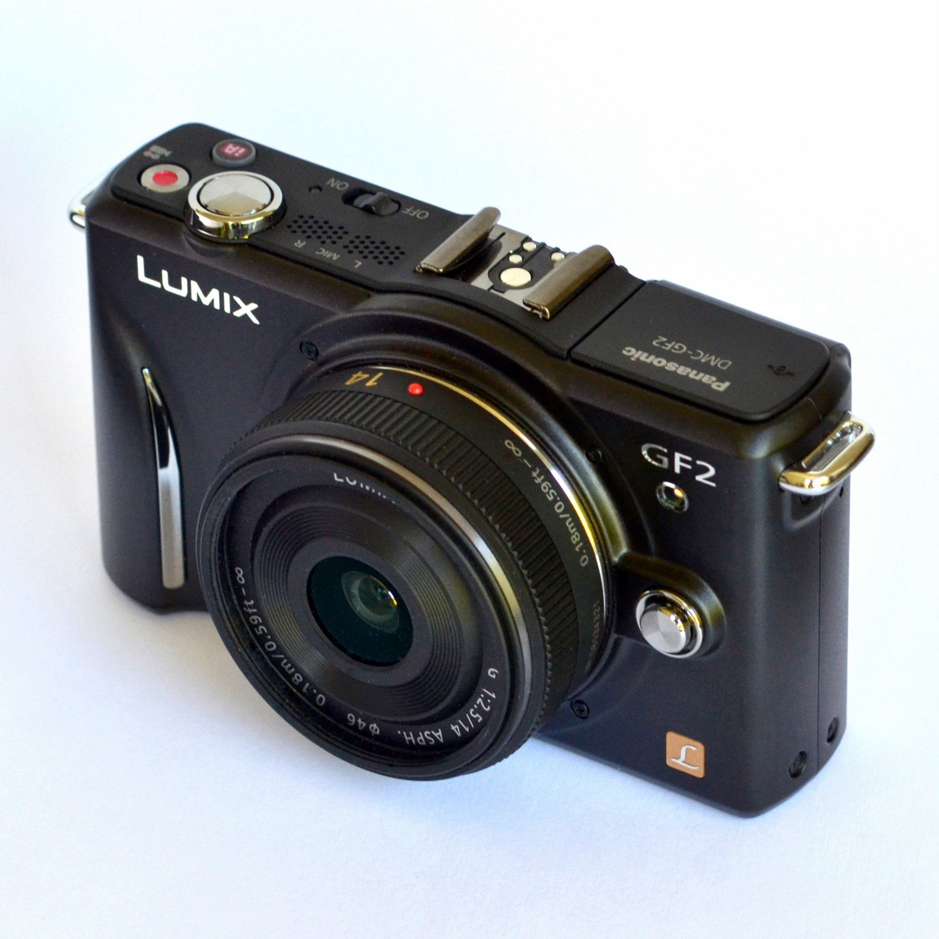 Panasonic Lumix DMC-GF2 digital camera with 14 mm f:2.8 lens